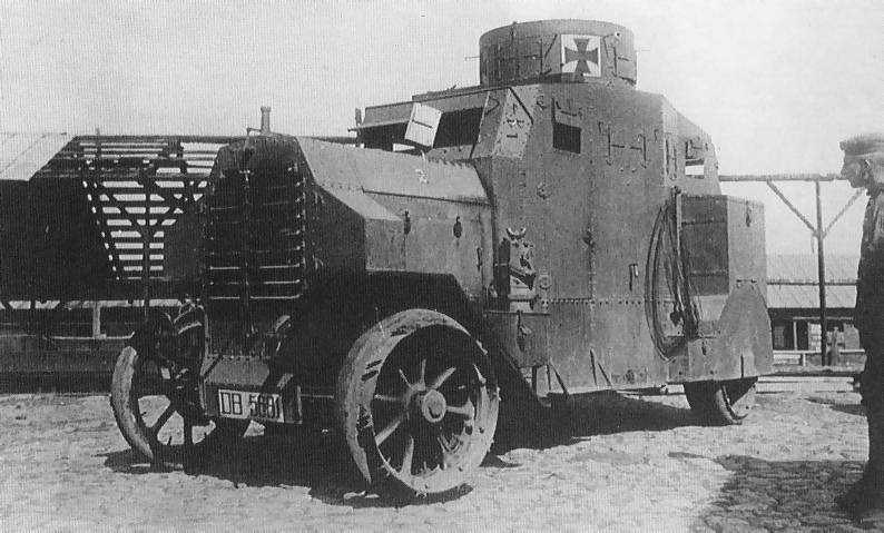 "Panzerspähwagen Ehrhardt E-V/4" German armoured reconaissance car from First World War